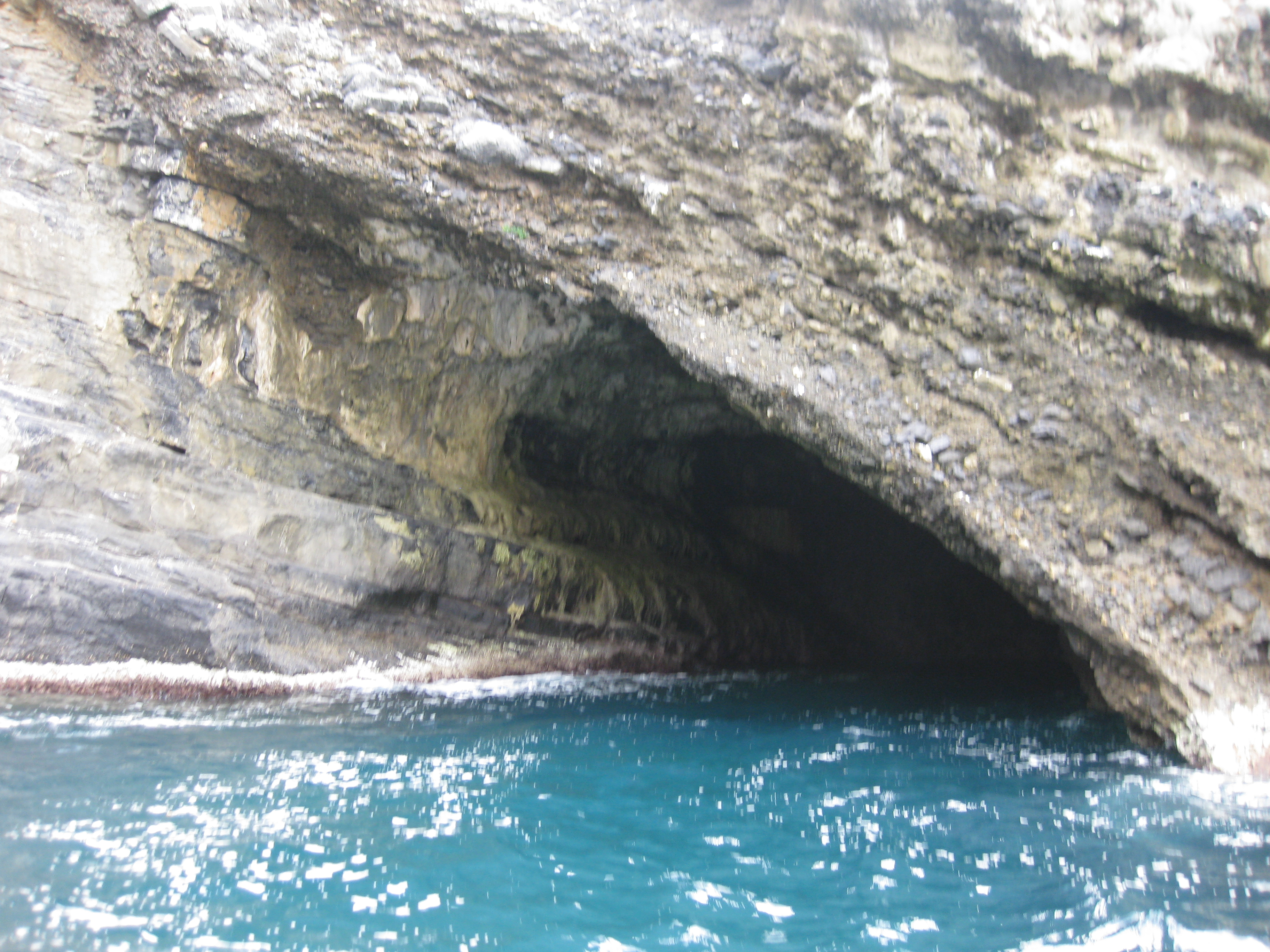 The Vulcanic Cave in Palmaria Island ITALY